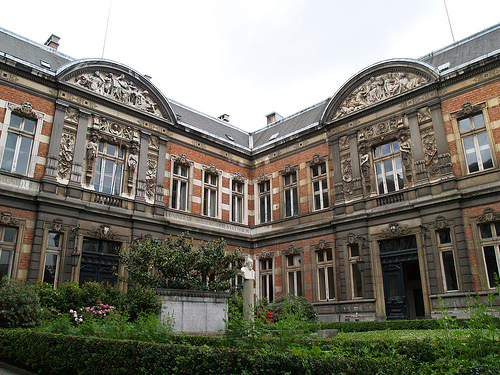 Building of the Royal Conservatory Brussels (Erasmushogeschool Brussel)